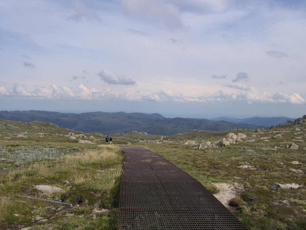 Looking from Kosciuszko Lookout down towards Thredbo. The elevation of the lookout is 2000m or 6,560 feet above sea level - well above the treeline. Note the raised metal-mesh walkway which was constructed so that walkers don't injure the fragile alpine vegetation (which due to the cold temperatures takes a very long time to recover from any damage)